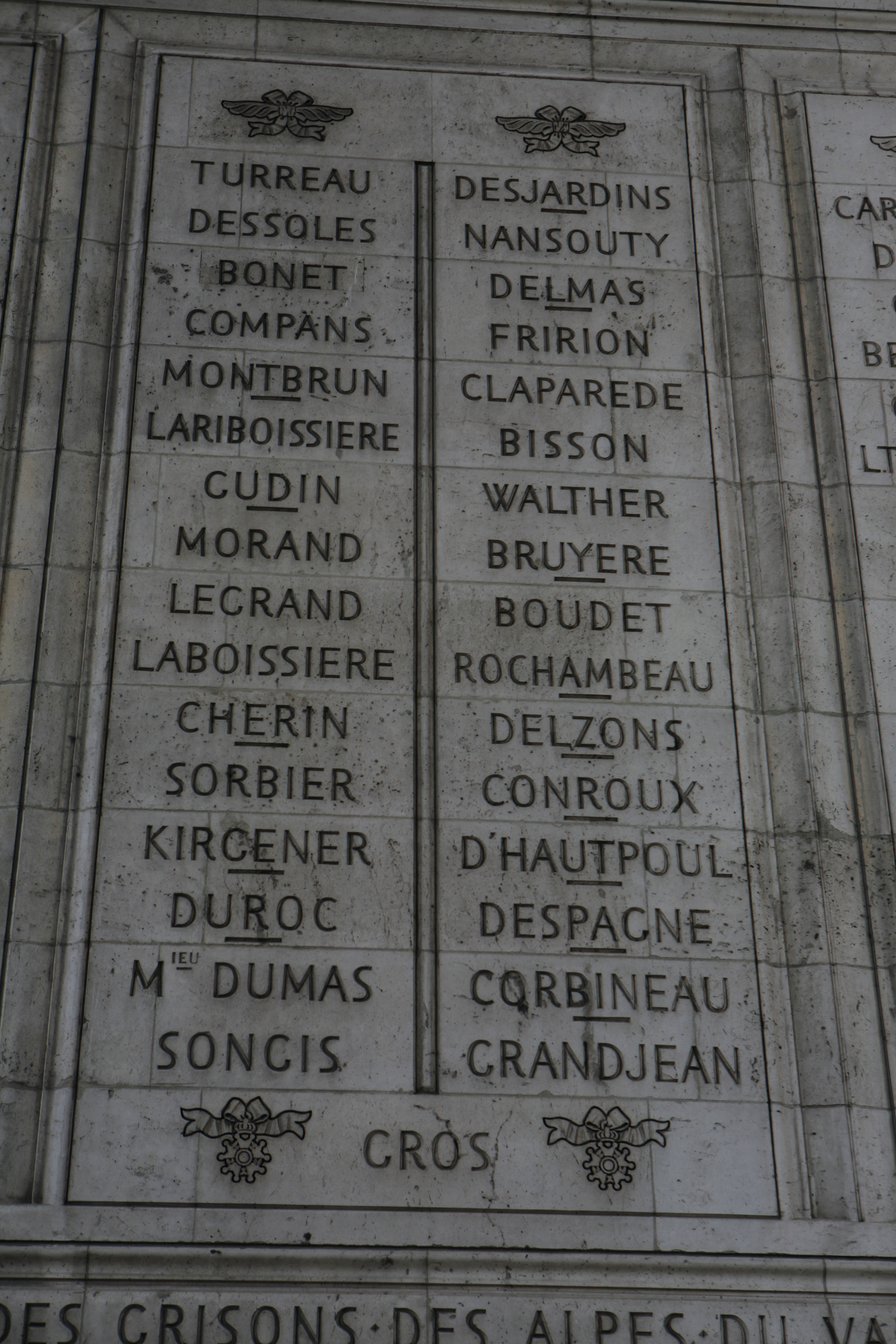 Inscriptions of the Arc de Triomphe. Eastern pillar, Columns 15, 16.